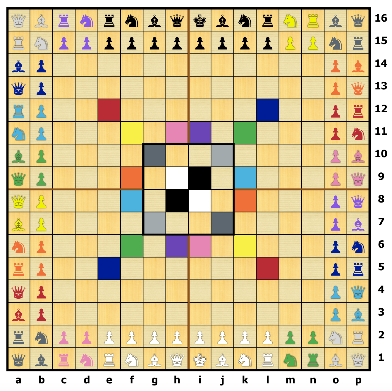 This is a diagram of the starting position in a game of Sovereign Chess